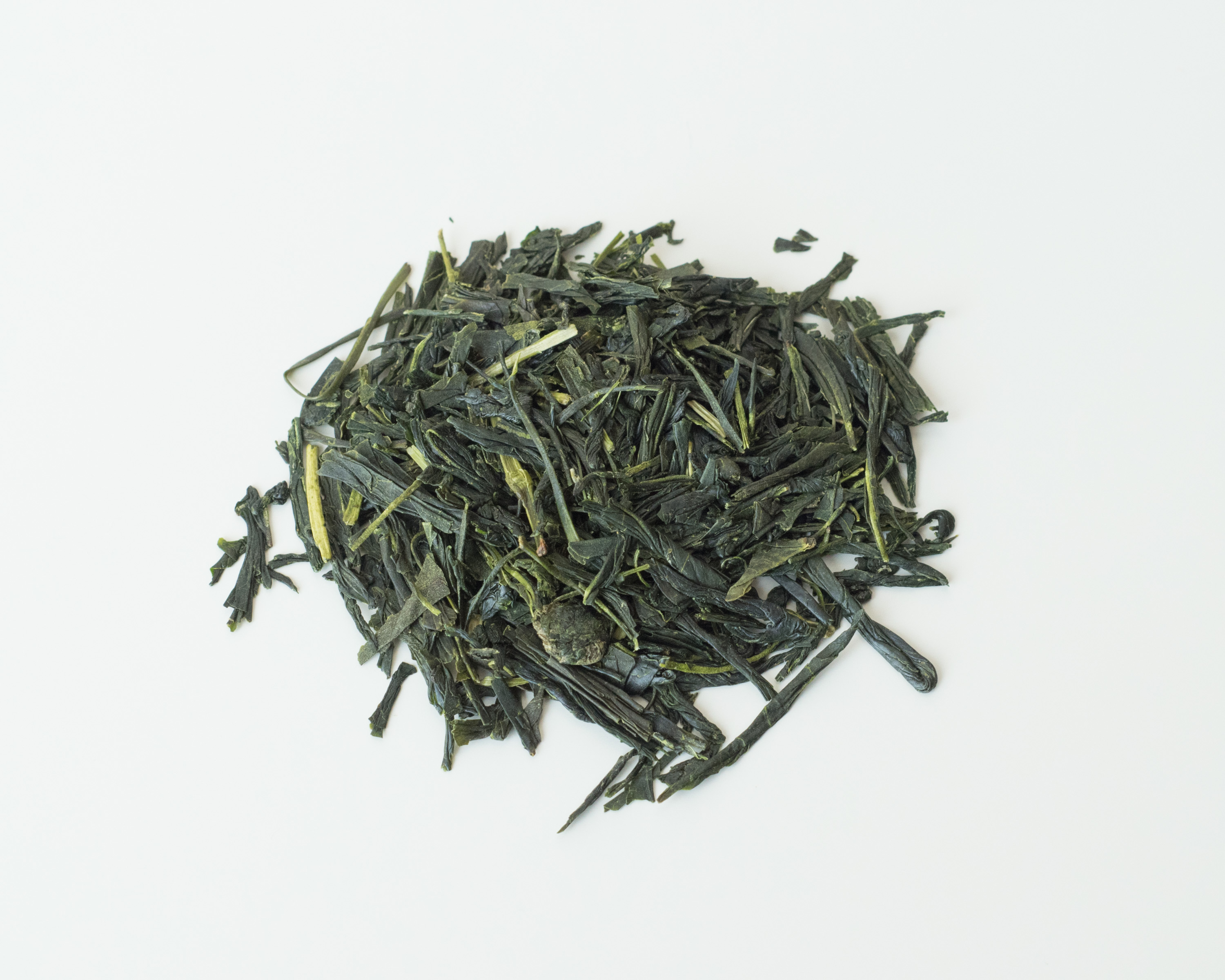 Bancha green tea grown in Shizuoka, Japan. This tea was made using the Yabukita variety of the tea plant.